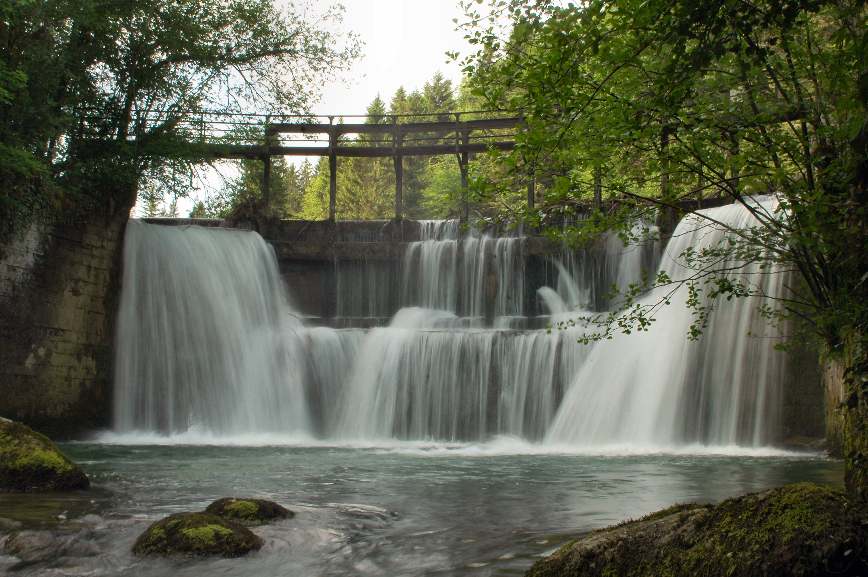 little dam on the Drouvenant river